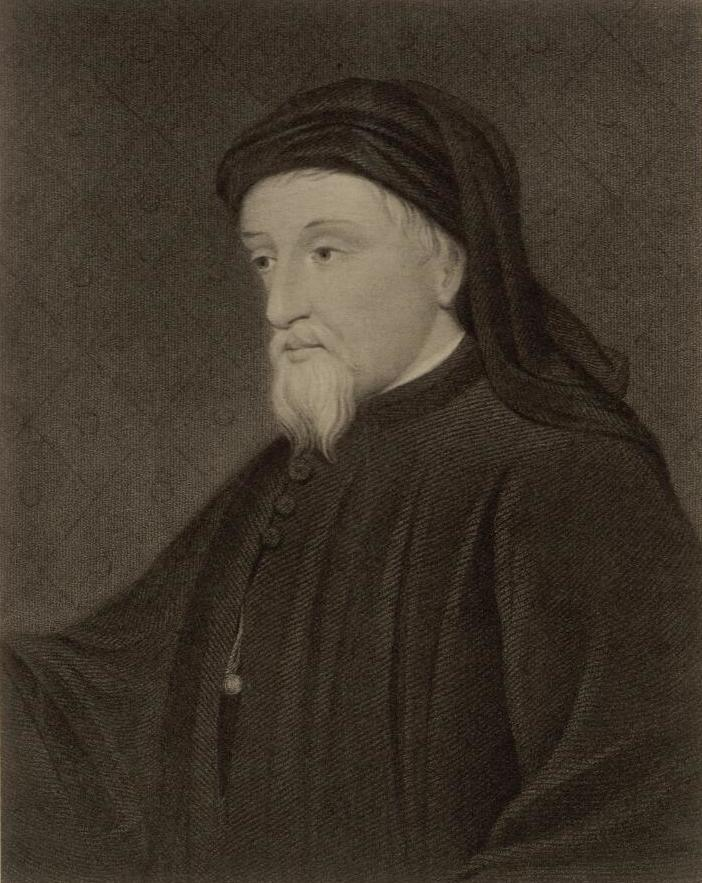 A portrait from the Welsh Portrait Collection at the National Library of Wales. Depicted person: Geoffrey Chaucer – English poet and author, 1343-1400